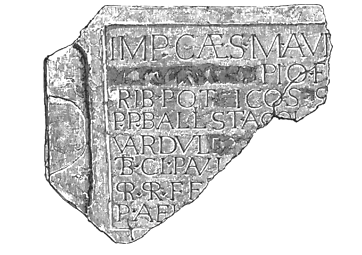 Dedication-slab (artillery plattform) First Loyal Cohort of Vardulli, Antoniniana under the direction Publius Aelius Erasinus, tribune, found between 1810 - 1855 at High Rochester (GB).